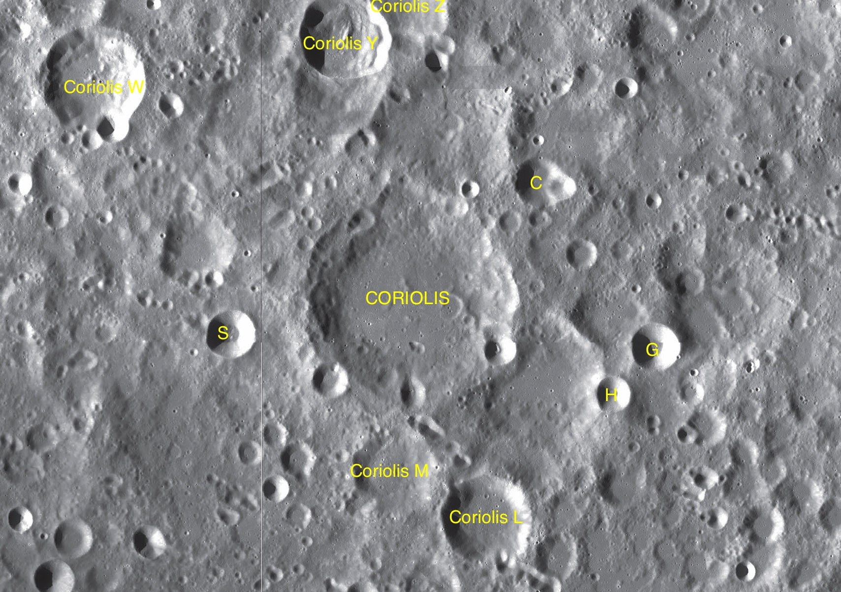 Parts of the charts LAC-67, LAC-68, LAC-85, LAC-86 used for the presentation